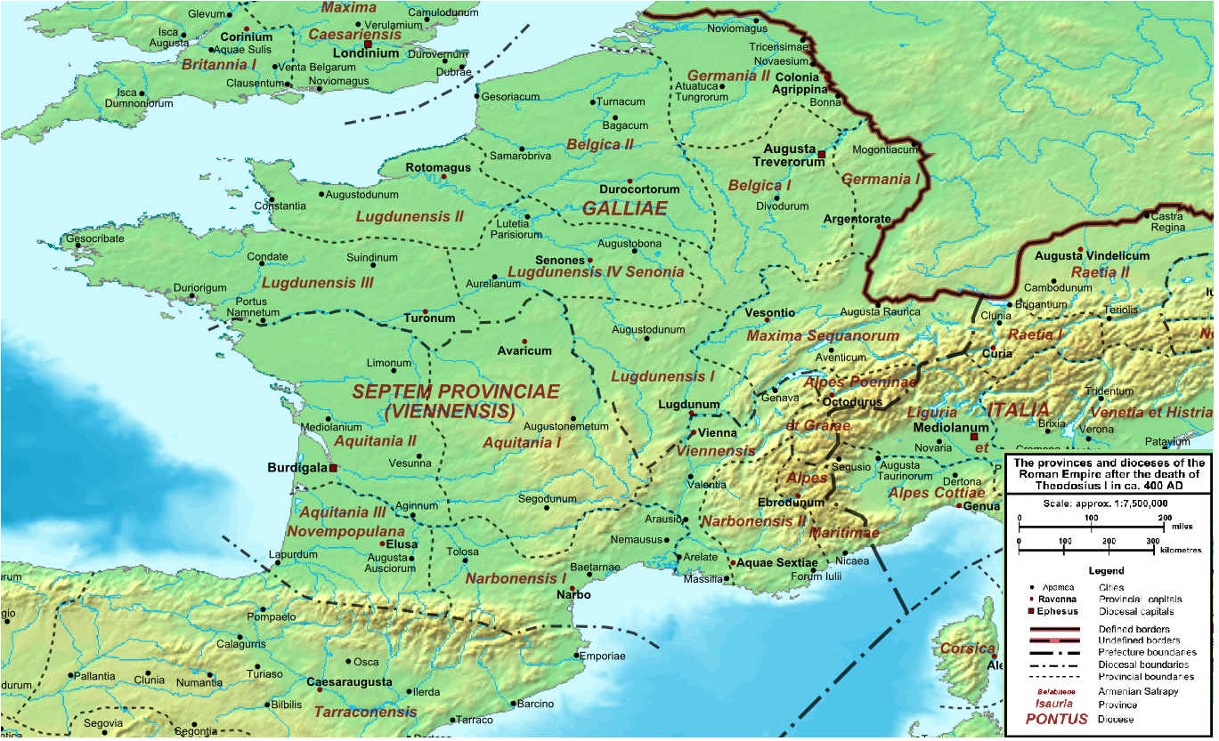 Map of the Roman Empire ca. 400 AD, showing the administrative division into dioceses and provinces, as well as the major cities. The demarcation between Eastern and Western Empires is noted in red.